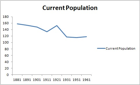 A line graph to show the current popluation from the year 1881 - 1961